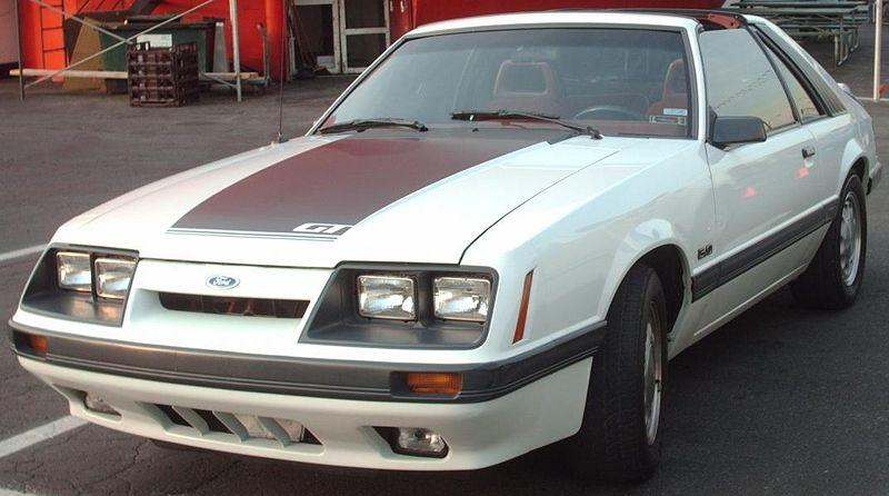 1985-1986 Ford Mustang photographed in Montreal, Quebec, Canada at the Gibeau Orange Julep.